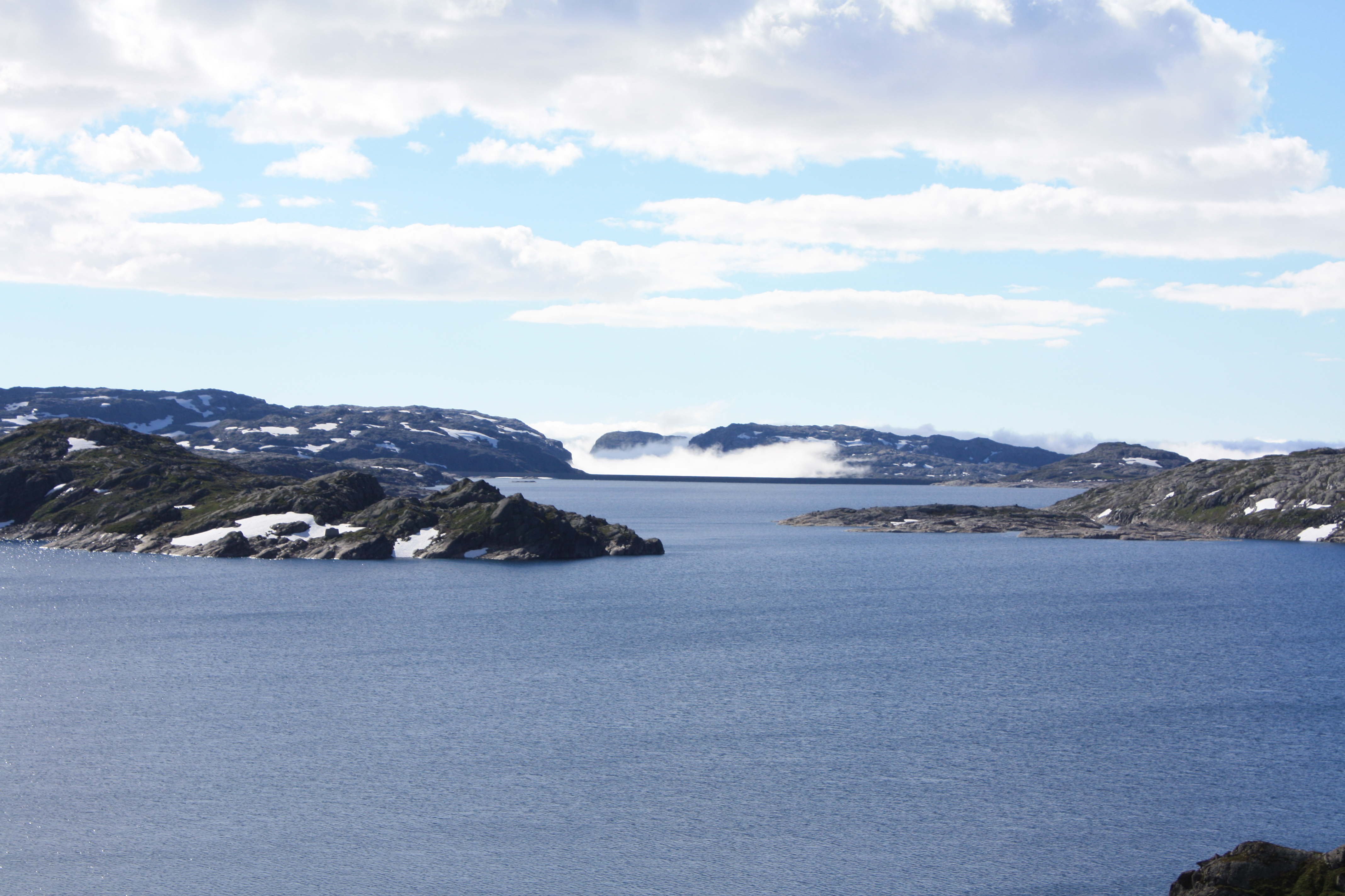 Førrevassdammen and Blåsjø, part of Ulla-Førre